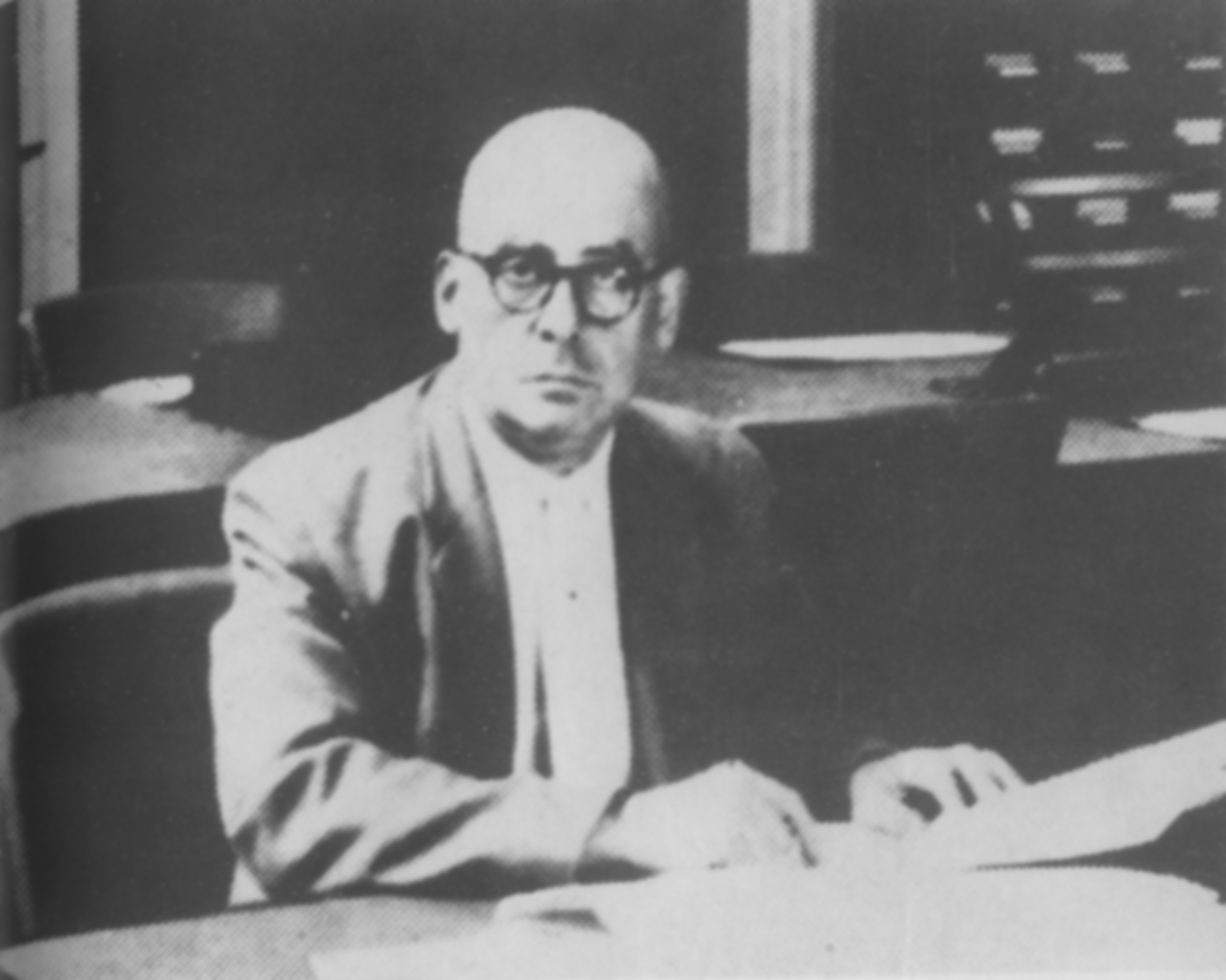 Photograph of Mieczysław Grydzewski.